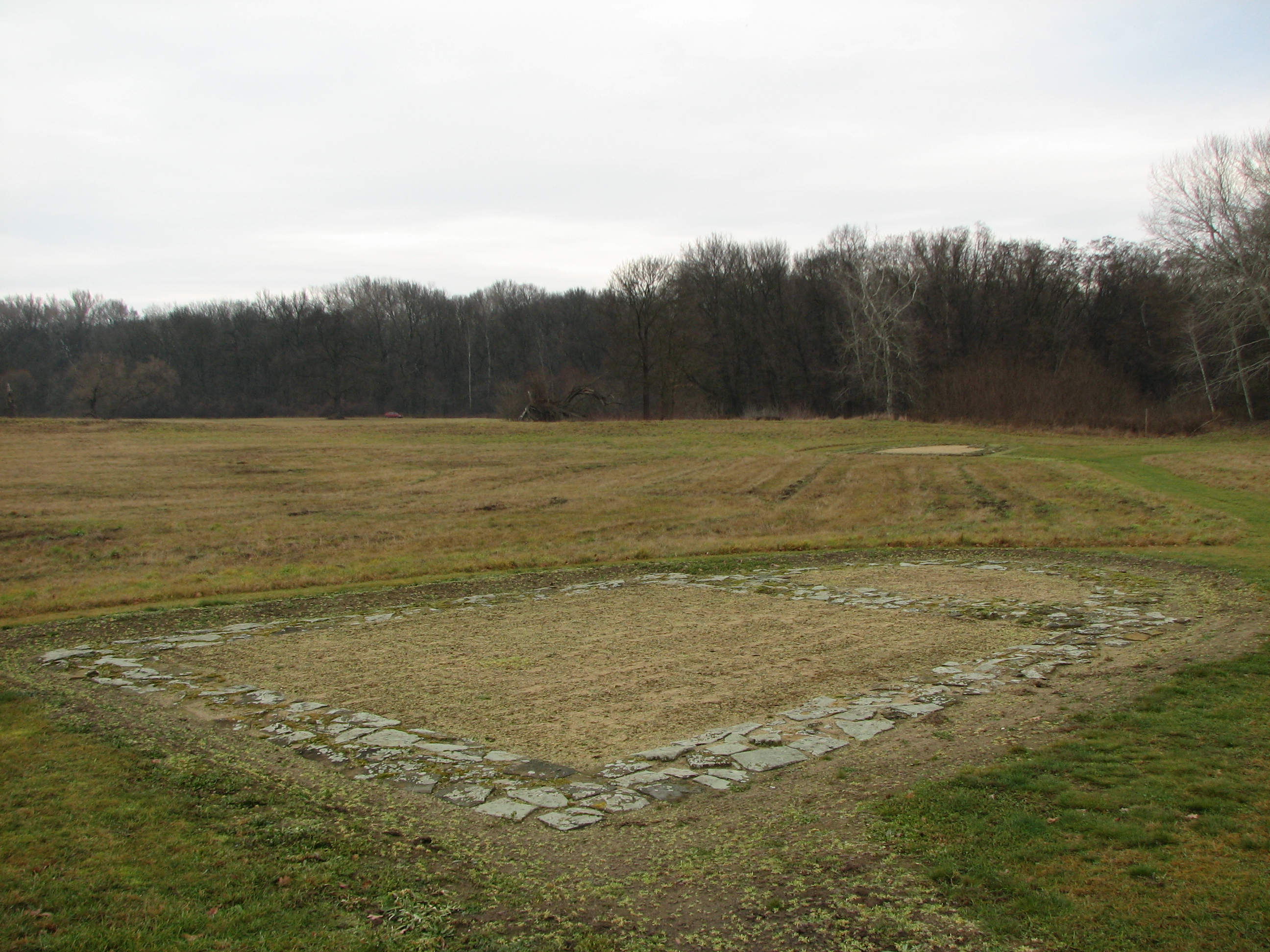 Archaeological museum Mikulčice valy - stone foundations of a church